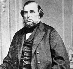 Hon. James Skead, Senator